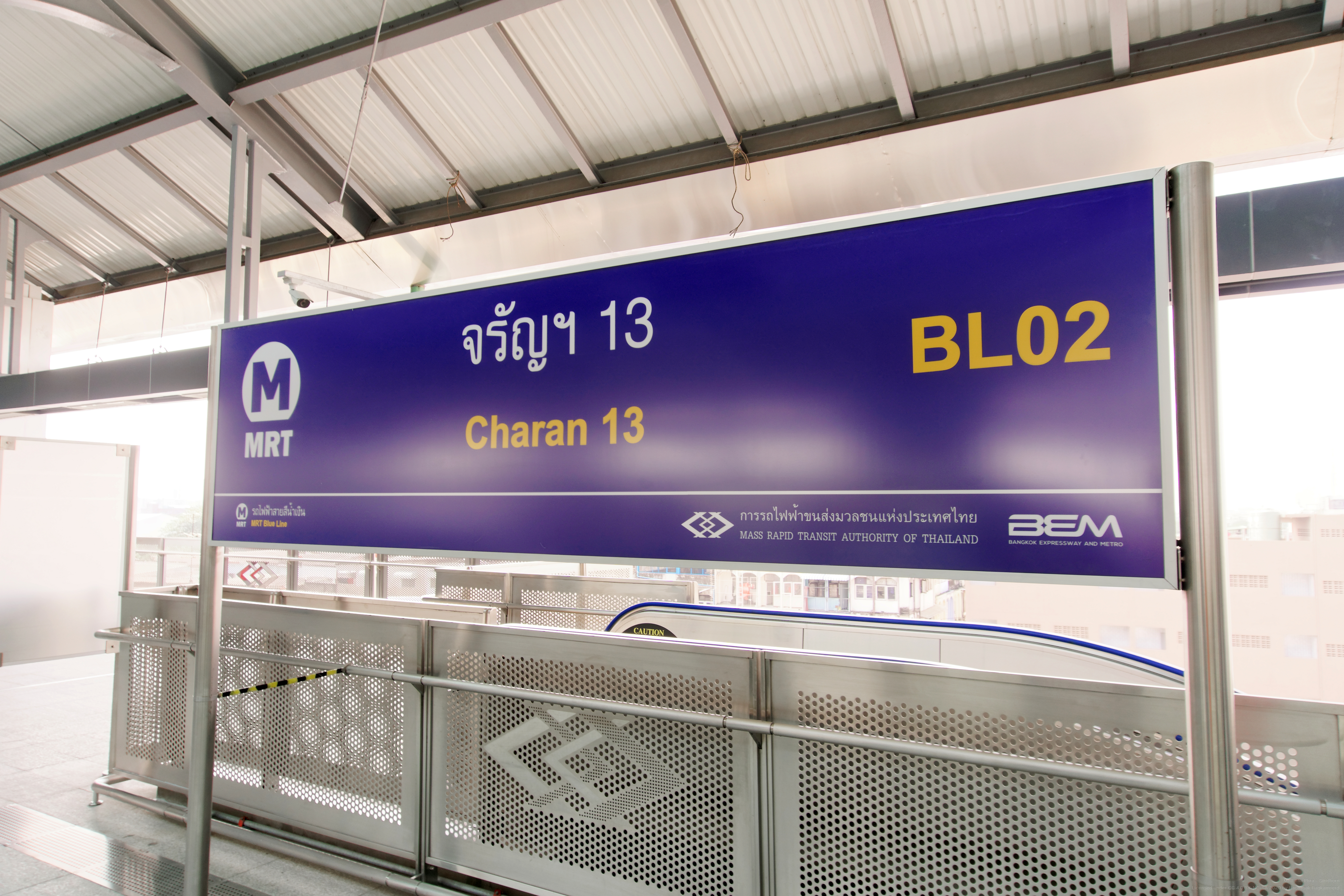 MRT Charan 13 – Traditional sign